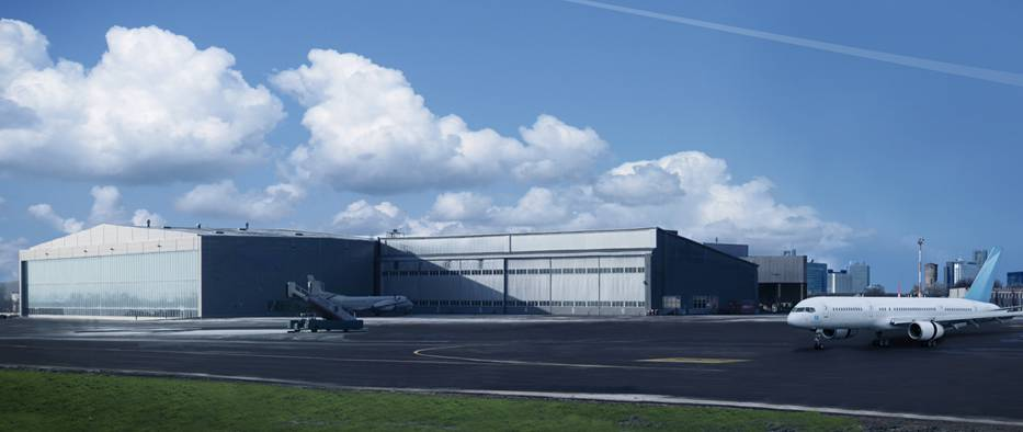 Vliniaus oro uostas